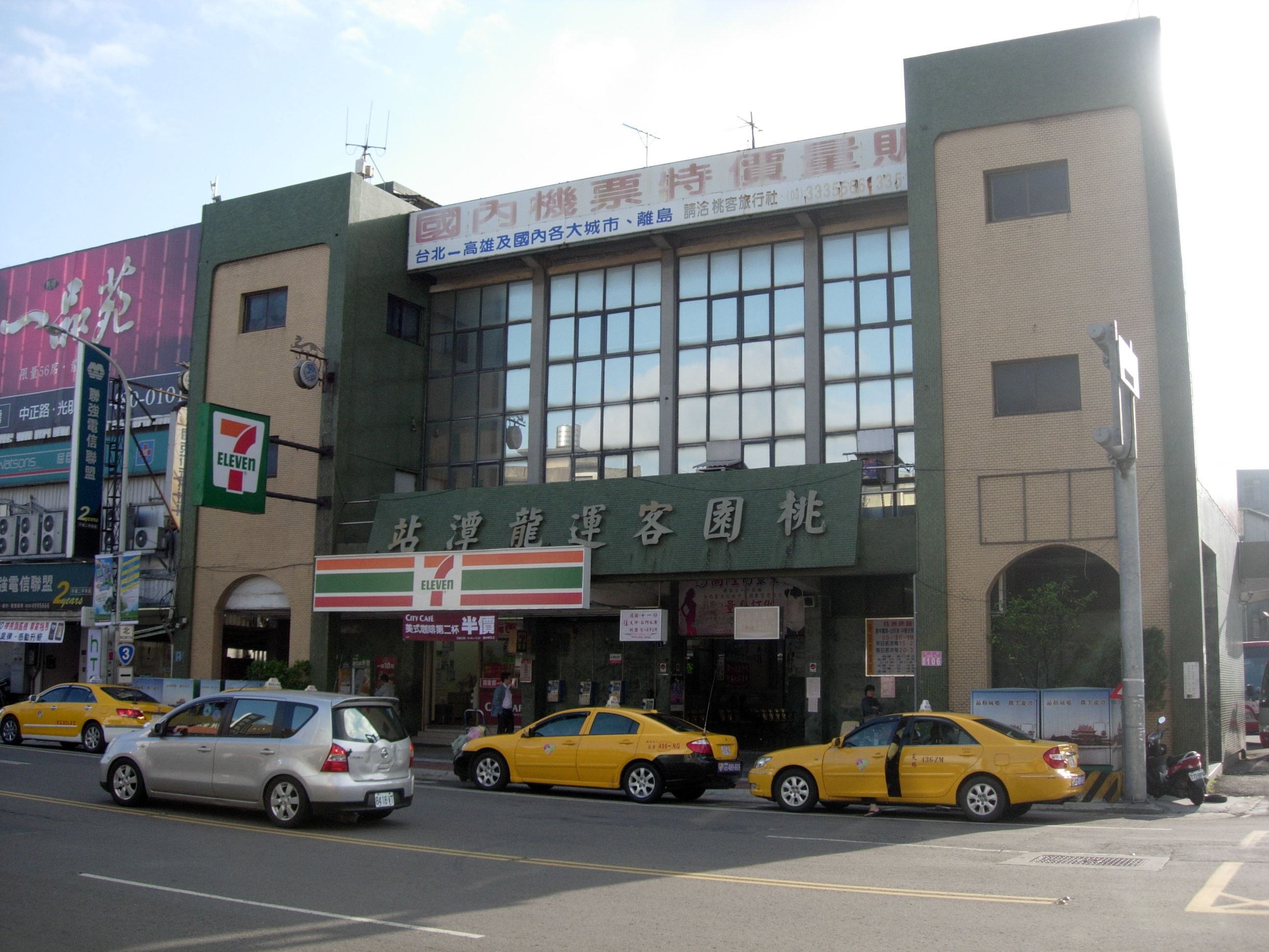 Lungtan Station, Taoyuan Bus.中文（台灣）: 桃園客運龍潭站。